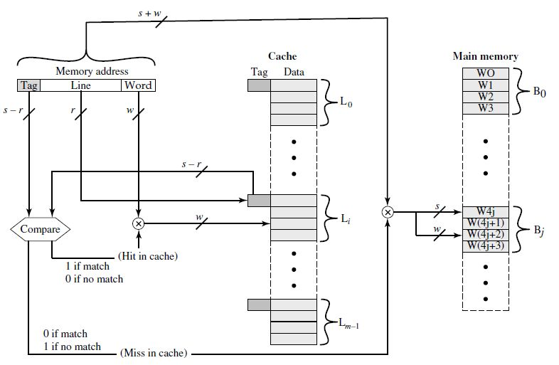 Direct mapping